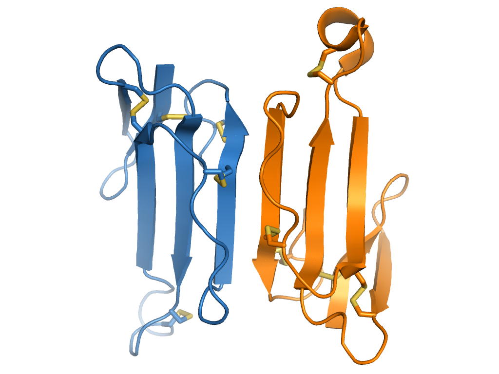 Structure of kappa-bungarotoxin, a neurotoxin found in the venom of the many-banded krait (Bungarus multicinctus); unlike other members of the bungarotoxin family, kappa-bungarotoxin is a native dimer. Rendered using PyMol from PDB ID 1KBA.